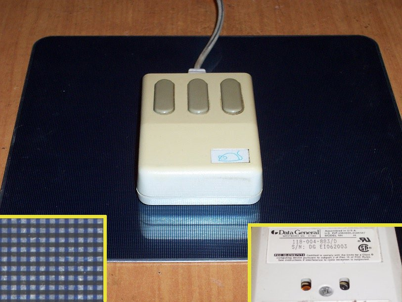 Old optical mouse, as used in a Data General AViiON workstation in the 1990s. The mouse itself is OEMed from Mouse Systems. The lower image parts show a scan of the mouse pad to the left (with the blue and dark grey stripes clearly identifiable), and a view to the two reflector holes on the bottom on the right side of the image.